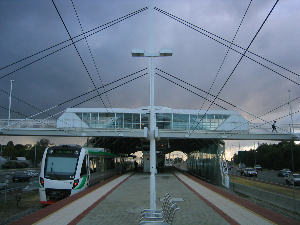 Transperth Leederville Train Station